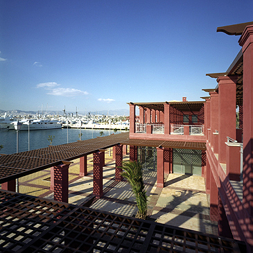 Marina Flisvos at Palaio Faliro, Greece